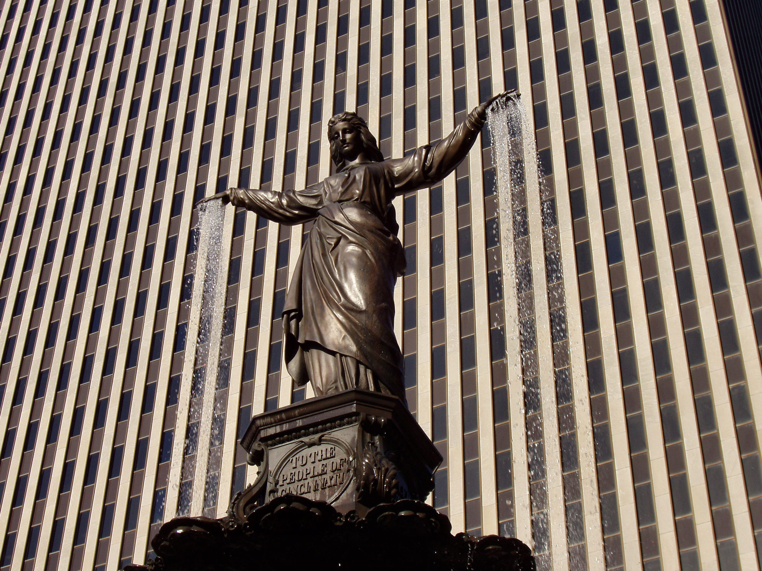 The Tyler Davidson Fountain "Genius of Water" — in Fountain Square, Cincinnati, Ohio.